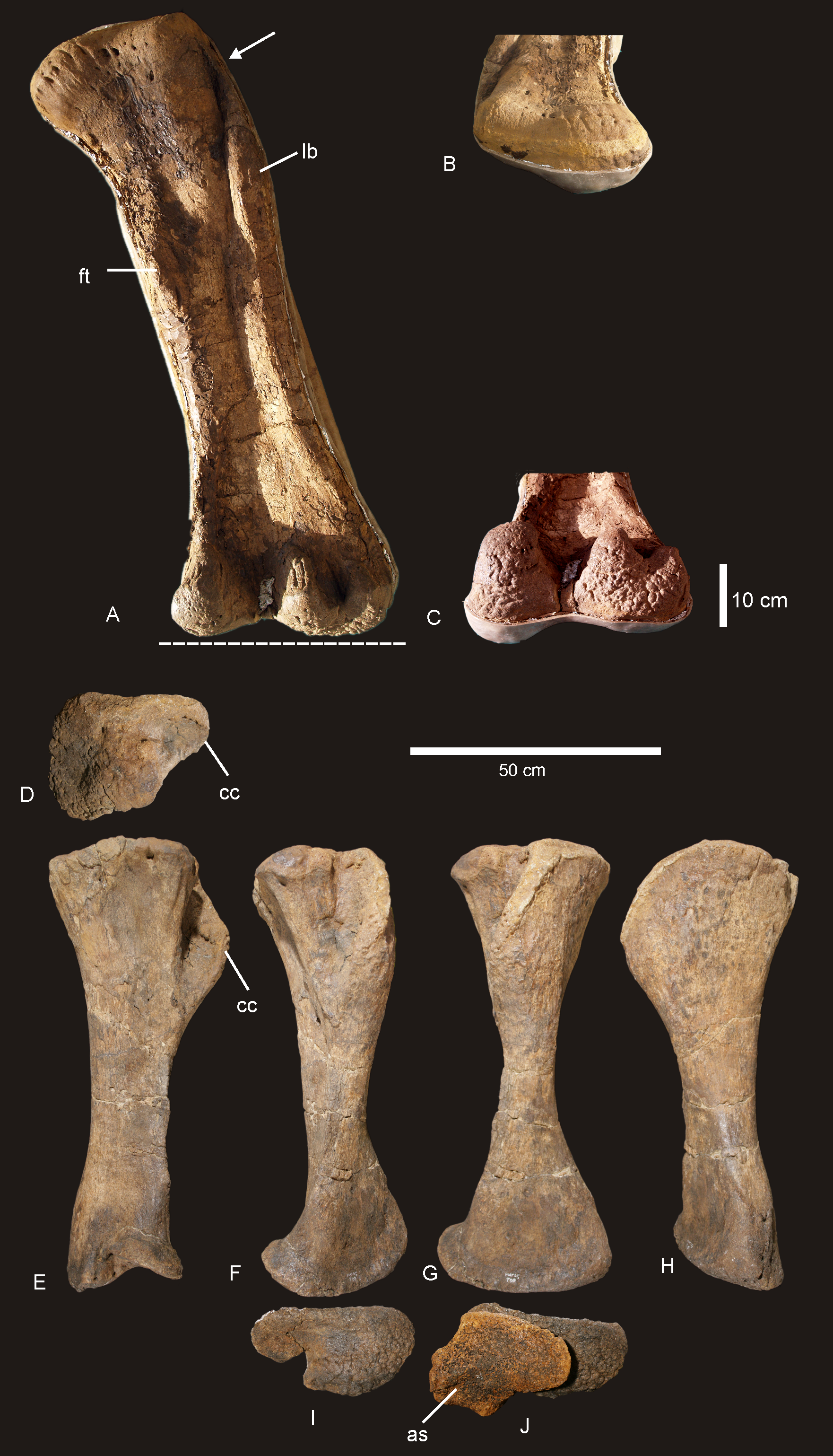 Femur of Diamantinasaurus matildae. Right femur in posterior (A), proximal (B) and distal (C) views. Arrow indicates proximal post-mortem crack running distally. Dashed line indicates horizontal plane on which the distal condyles are oriented. Tibia of Diamantinasaurus matildae. Right tibia in proximal (D), lateral (E), anterior (F), medial (G), posterior (H), distal (I) views, and articulated with astragalus in distal view (J). Abbreviations: as, astragalus; cc, cnemial crest; ft fourth trochanter; lb, lateral bulge.